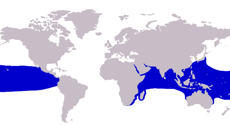 Distribution of bluefin trevally, Caranx melampygus using map based on GDFL image